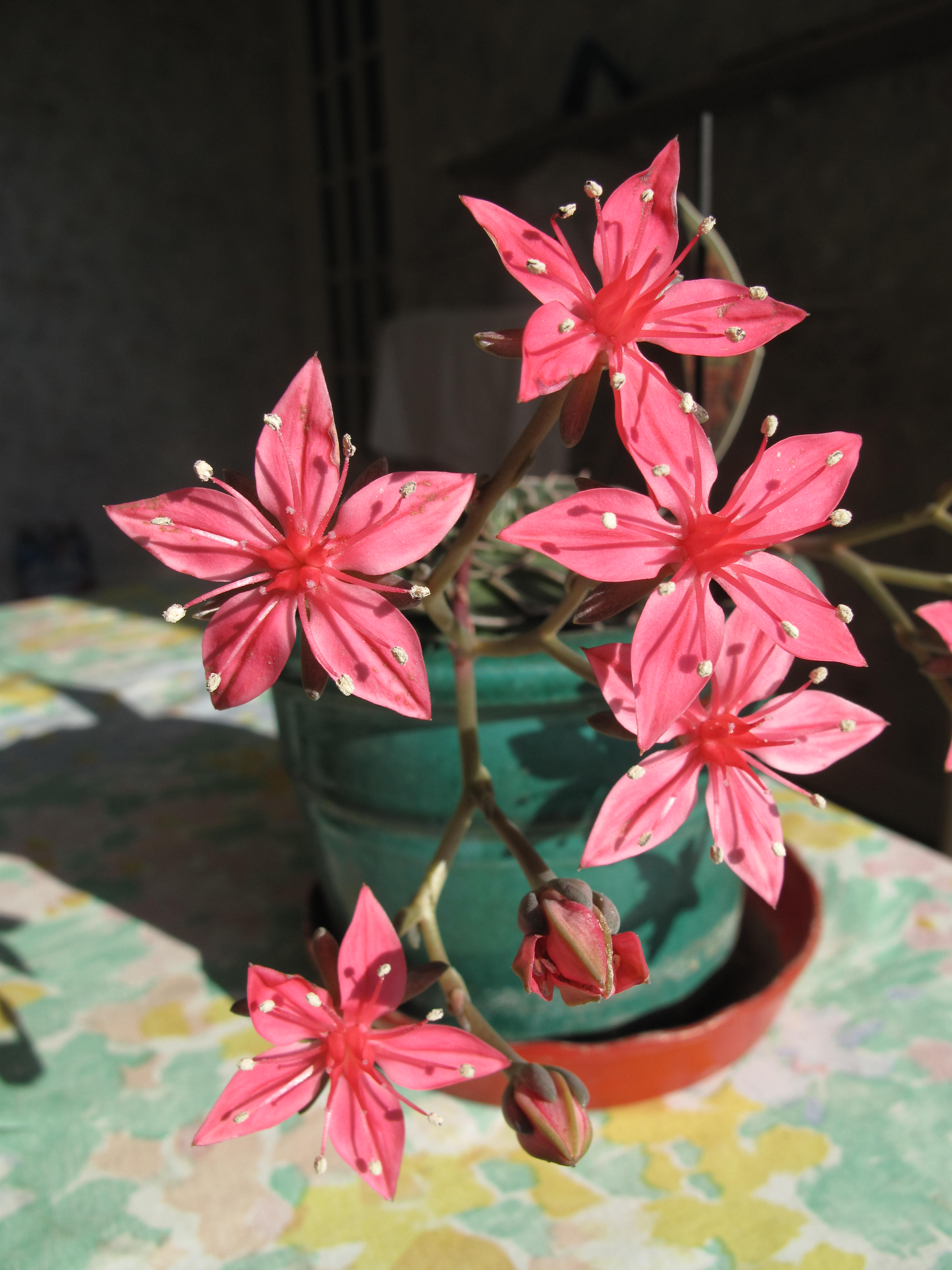 Tacitus bellus flowering. Grown near Paris.